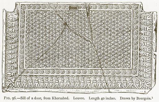 Threshold from a door of a palace of Ashurbanipal, since 1855 in the Louvre